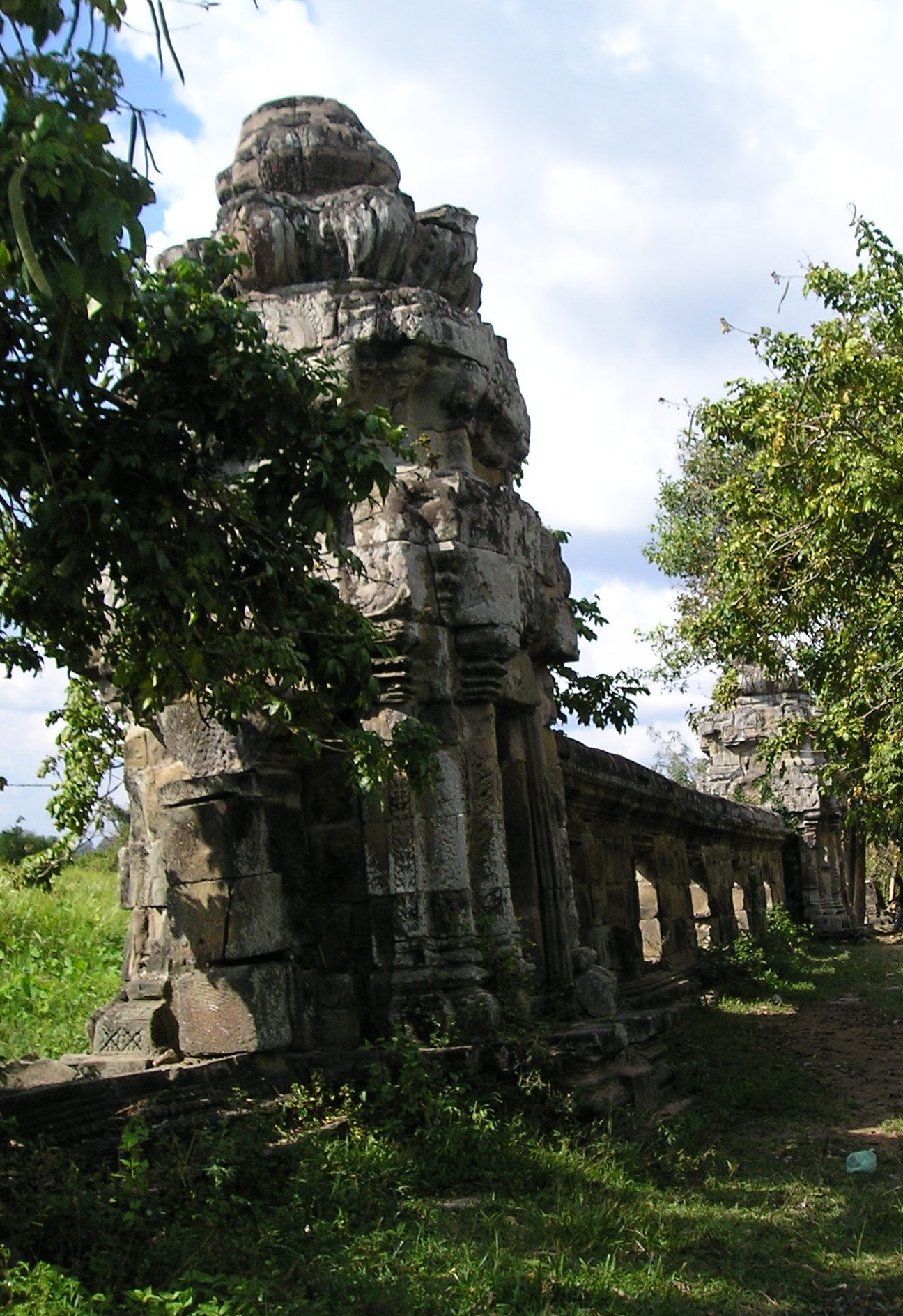 Photo by Writer128